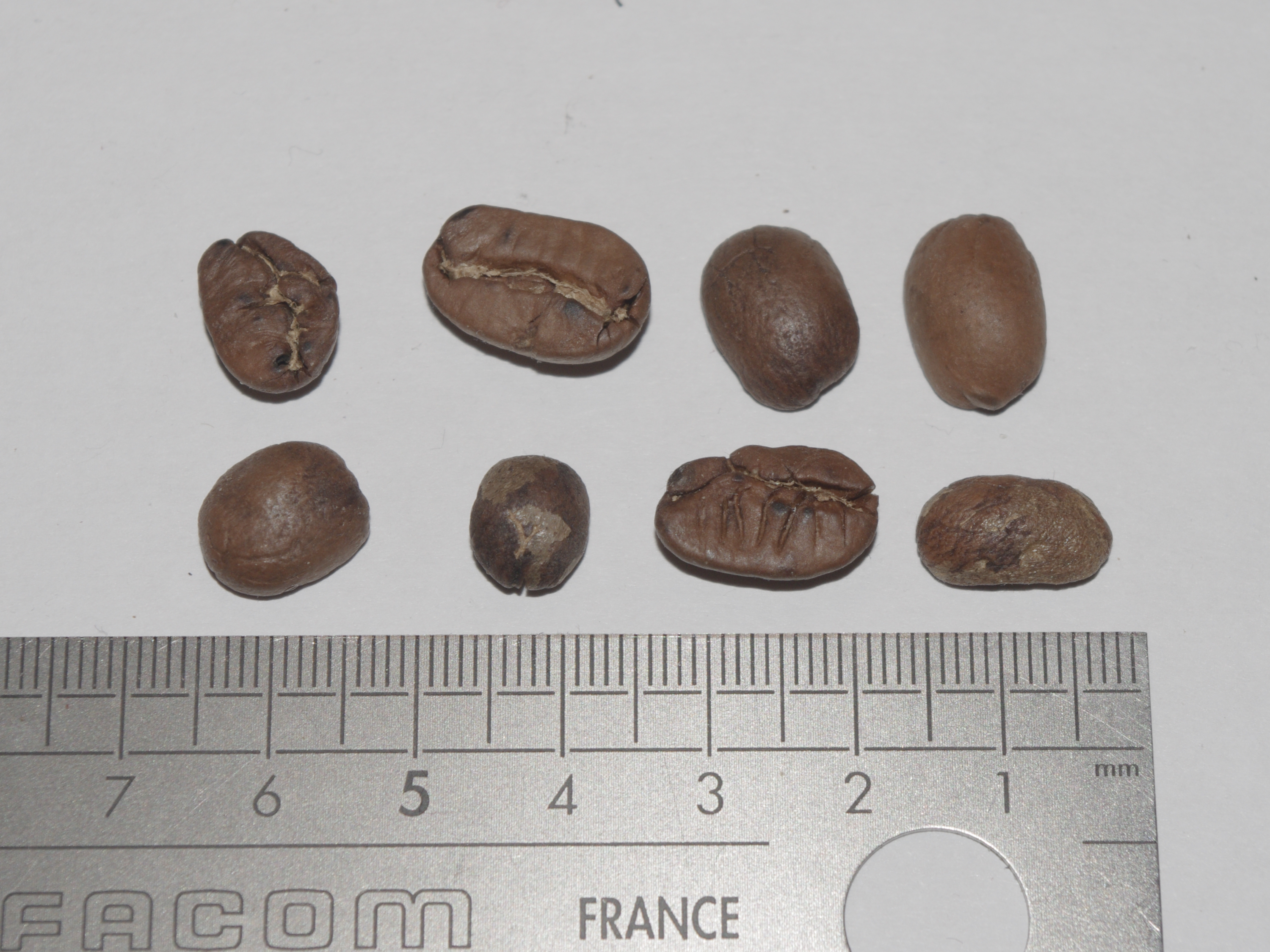 Note the large beans